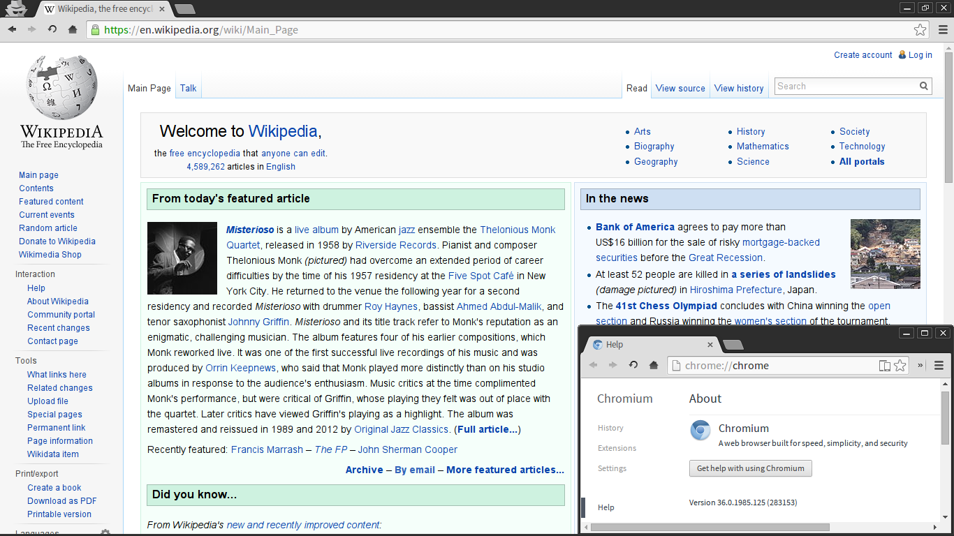 Wikipedia homepage in Chromium Web browser 36 running on Manjaro Linux 0.8.10